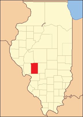 Locator Map of Macoupin County, Illinois, 1829. Based on: Illinois Secretary of State. Origin and Evolution of Illinois Counties. March 2010. p. 50.